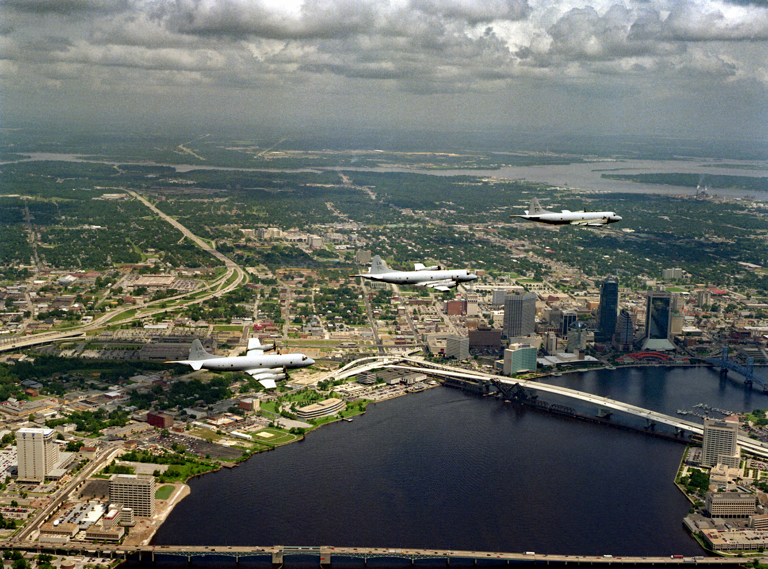 An aerial view of three P-3C Orion aircraft of Patrol Squadron 45 (VP-45) in-flight over the city. The Fuller-Warren Bridge carrying Interstate 95 traffic is at the bottom of the frame. The newly opened Acosta Bridge is in the center with the Main Street Bridge shown in the upper right.Location: JACKSONVILLE, FLORIDA (FL) UNITED STATES OF AMERICA (USA)